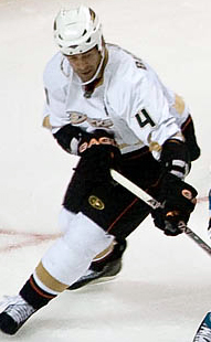 Todd Bertuzzi of the Anaheim Ducks in a pre-season game against the San Jose Sharks in 2007.